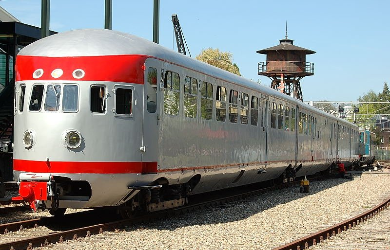 Mat'34 DMU 27 at the Dutch Railway Museum